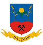 Coat of arms of Halimba, Hungary